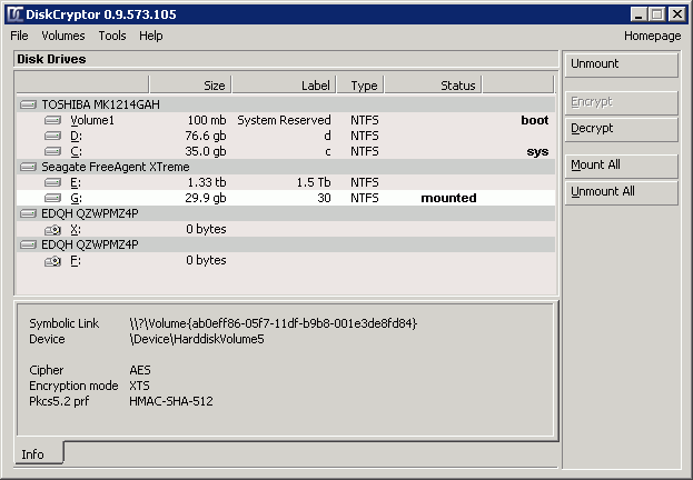 Скриншот главного окна DiskCryptor v.0.9